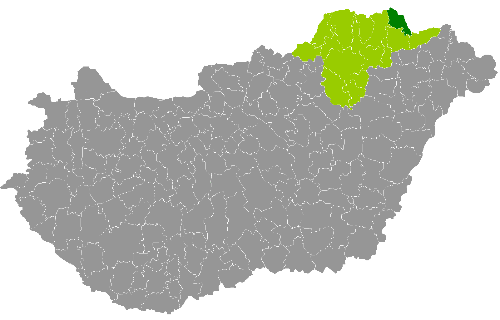 Location of Sátoraljaújhely District, Borsod-Abaúj-Zemplén, Hungary